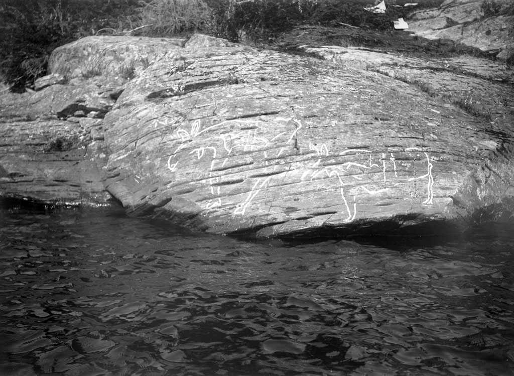 Rock carvings with elks on a rock at Landverk by Lake Ånnsjön. The rock carvings are from the Stone Age (2000 BC or older).